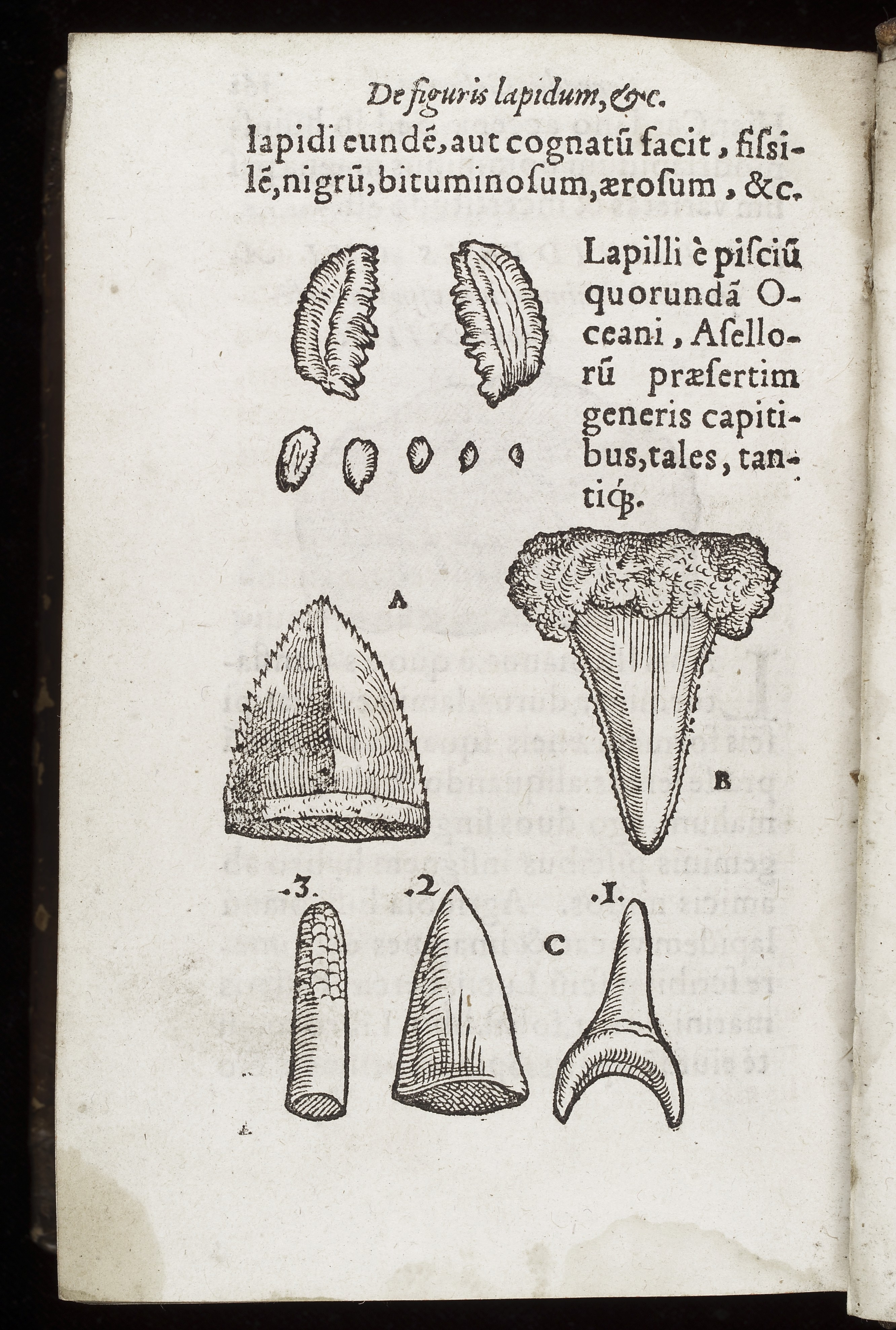 A selection of fossil teeth. Rare Books Keywords: Fossils